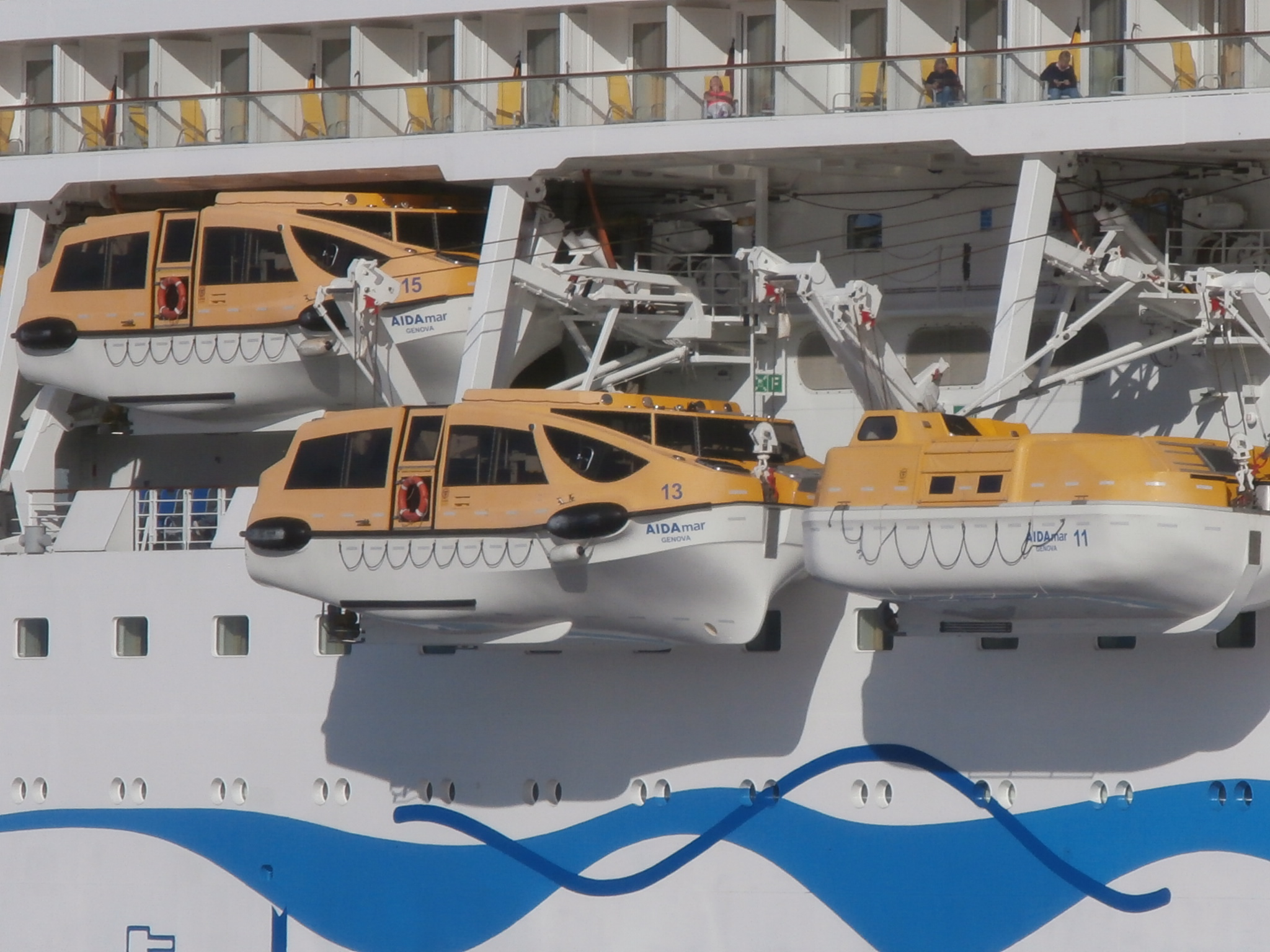 AIDAmar lifeboats, Tallinn 19 September 2016